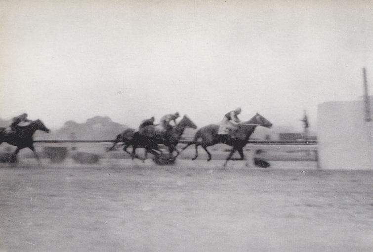 1950 japanese derby